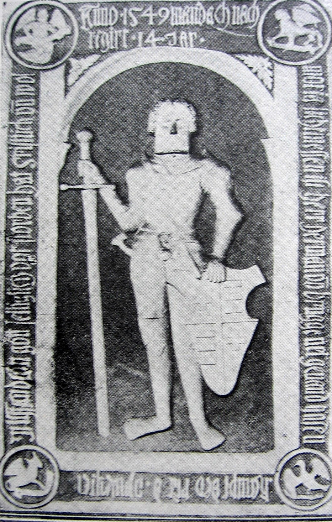 Gravestone of Master Hermann von Brüggenei of Livonian Order (died 1549) in St John's Church, Cesis.